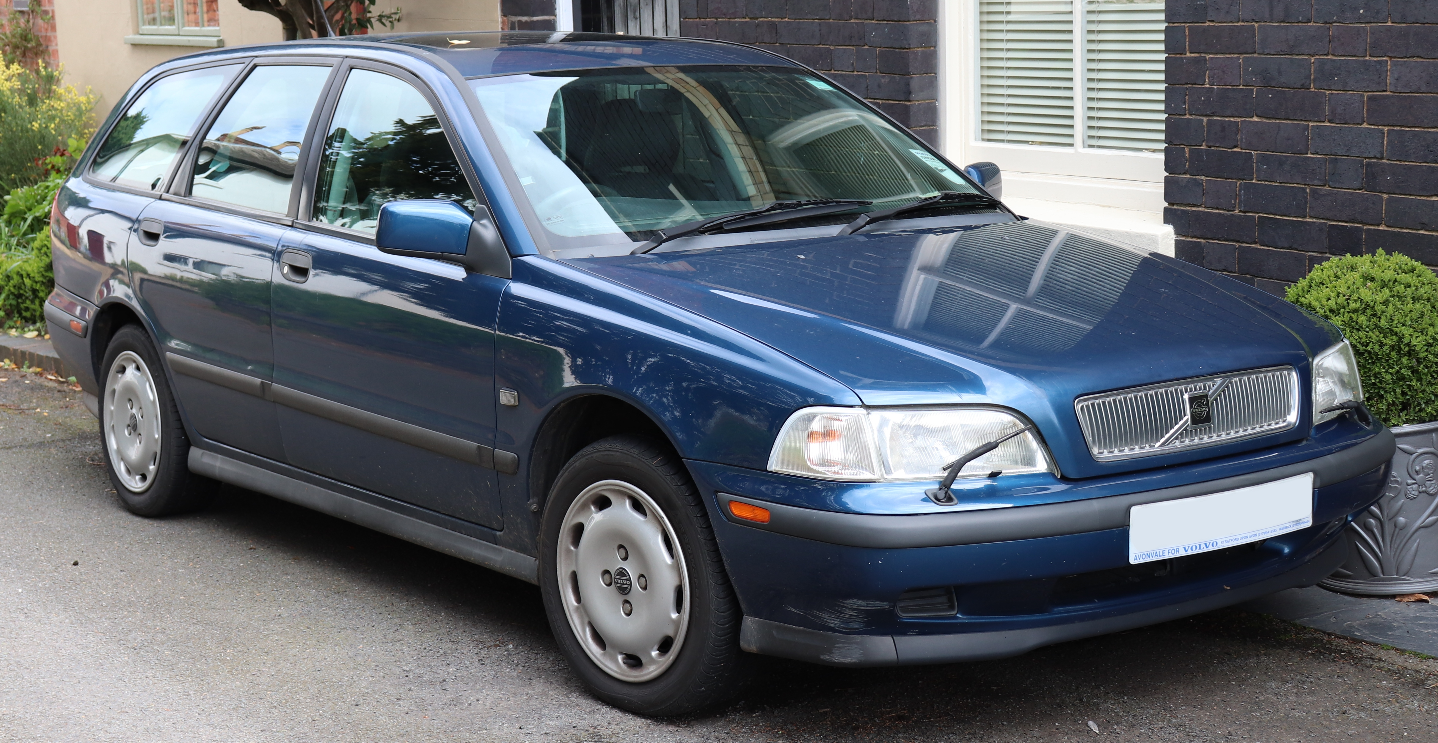 1998 Volvo V40 CD 2.0 Front Taken in Leamington Spa